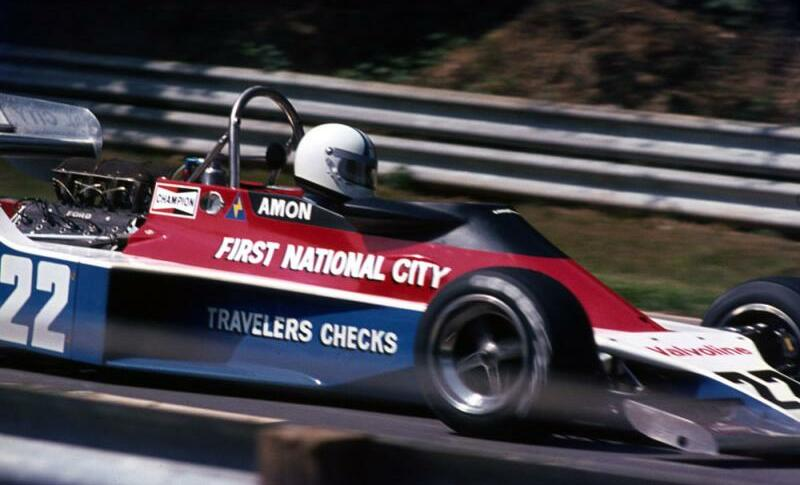 Brands Hatch